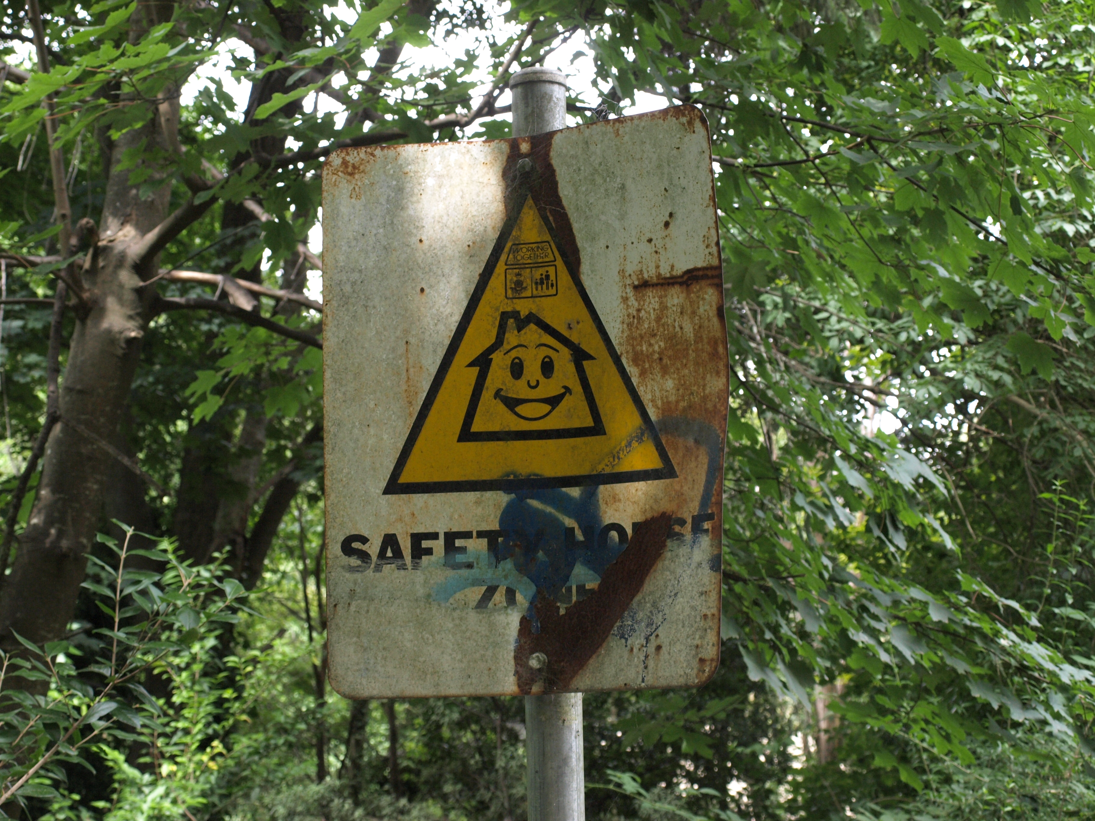 A badly rusted "Safety House Zone" sign in Mt Dandenong, Victoria, Australia.